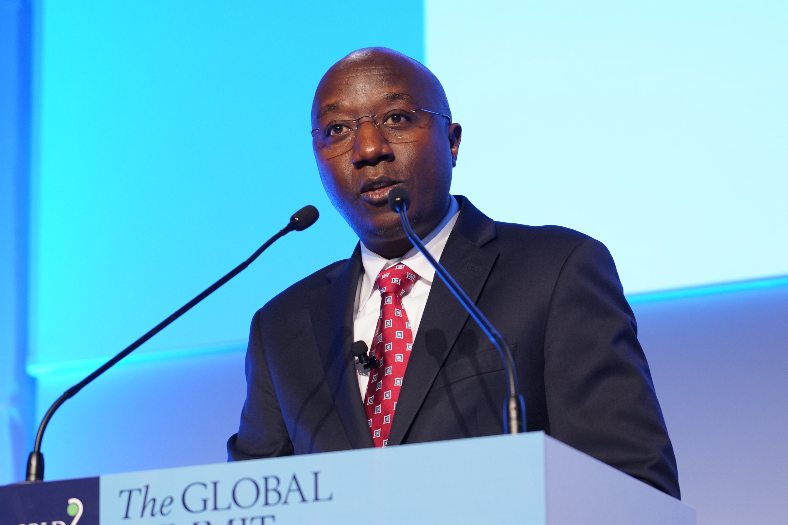 The Rt. Hon. Prime Minister of the Republic of Rwanda, Dr Edouard Ngirente